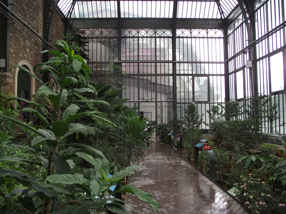 The New Caledonia Greenhouse (in